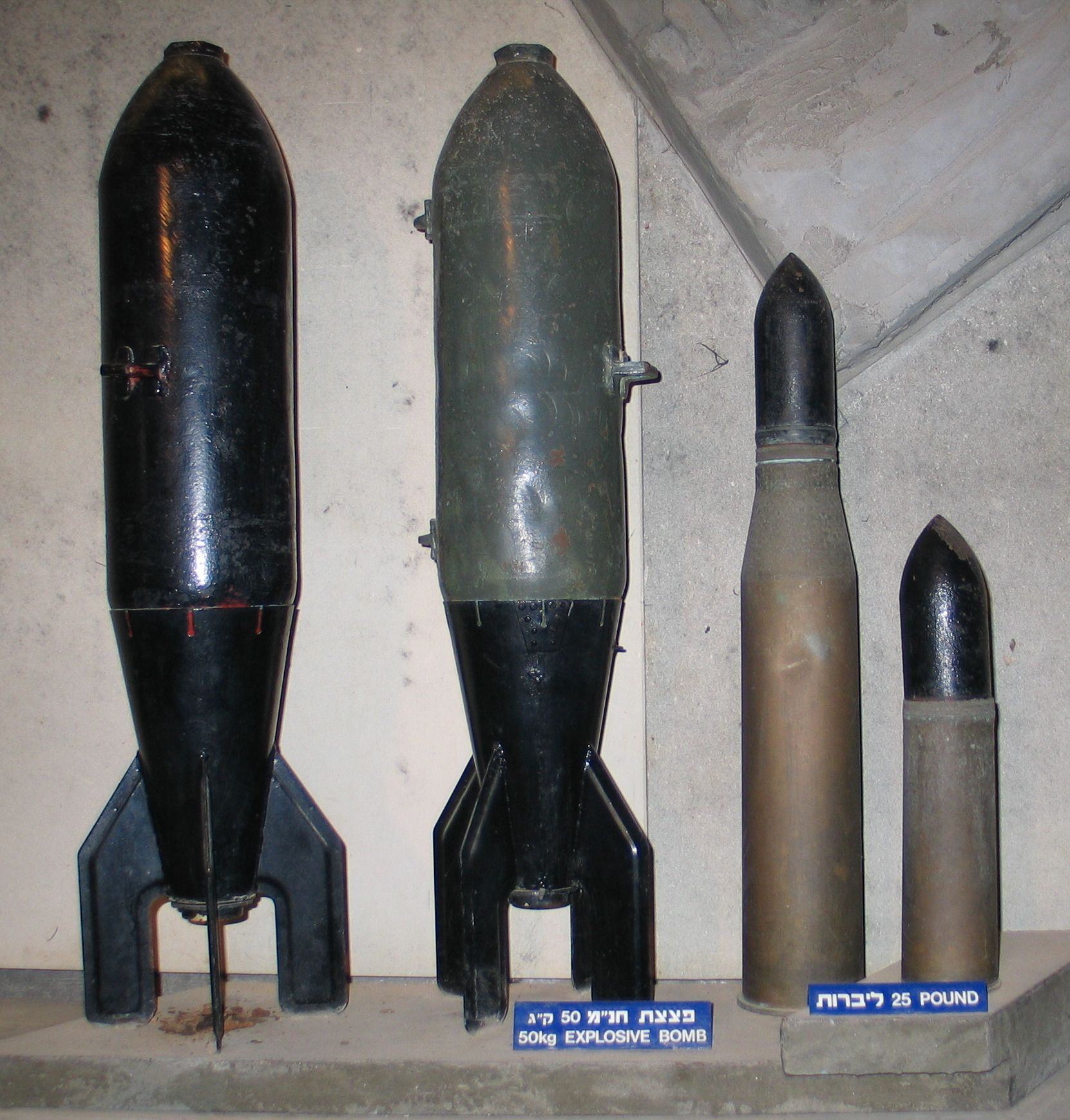 Ammunition. Yad Mordechai Museum.